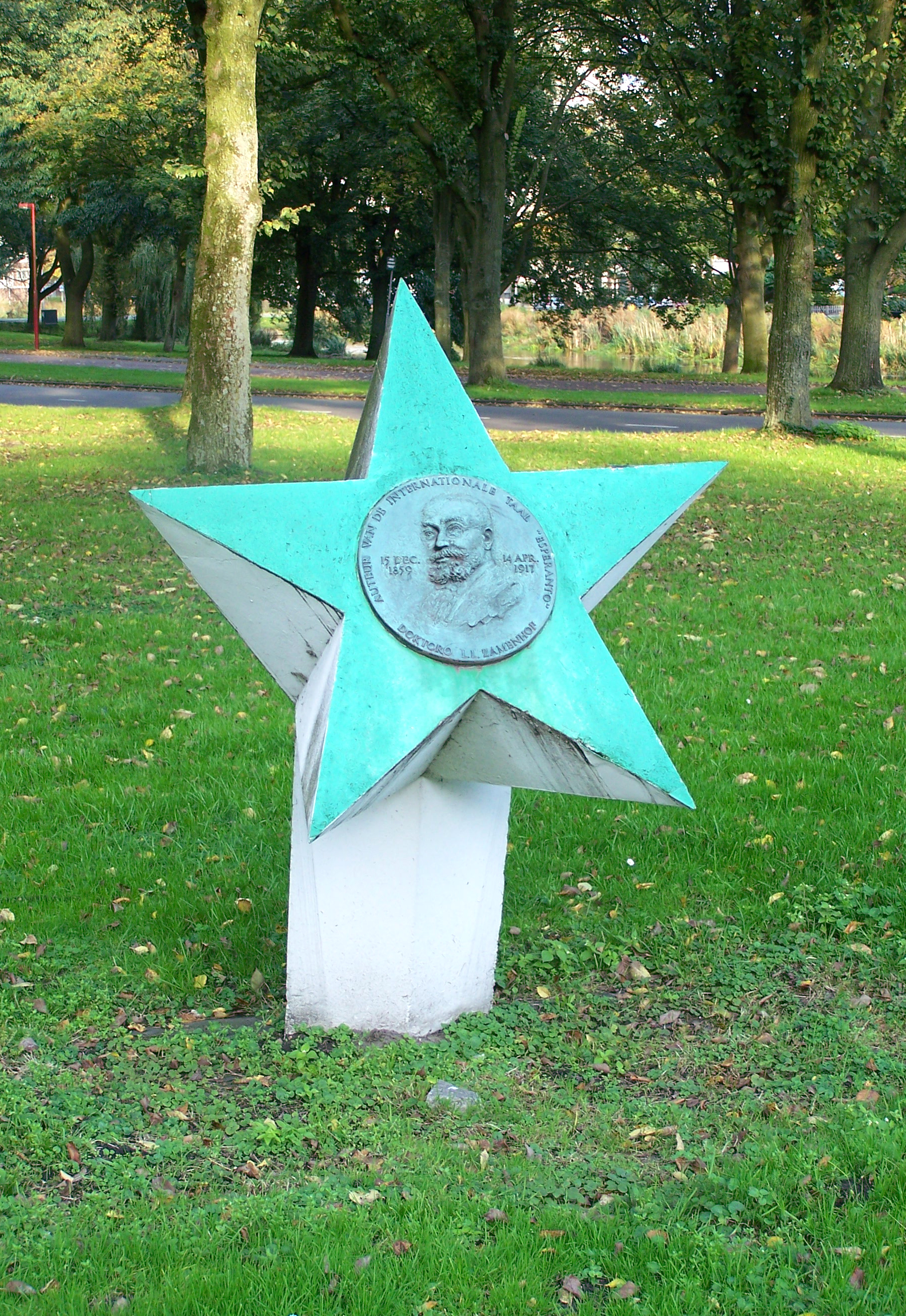 Monument for Lejzer Zamenhof known as the Esperantomonument, in Utrecht, Nederland. Placed at the corner of the Brailledreef and Zamenhofdreef in 1948. Made by architect A. Salvatore and sculptor Frits Sieger sr. .